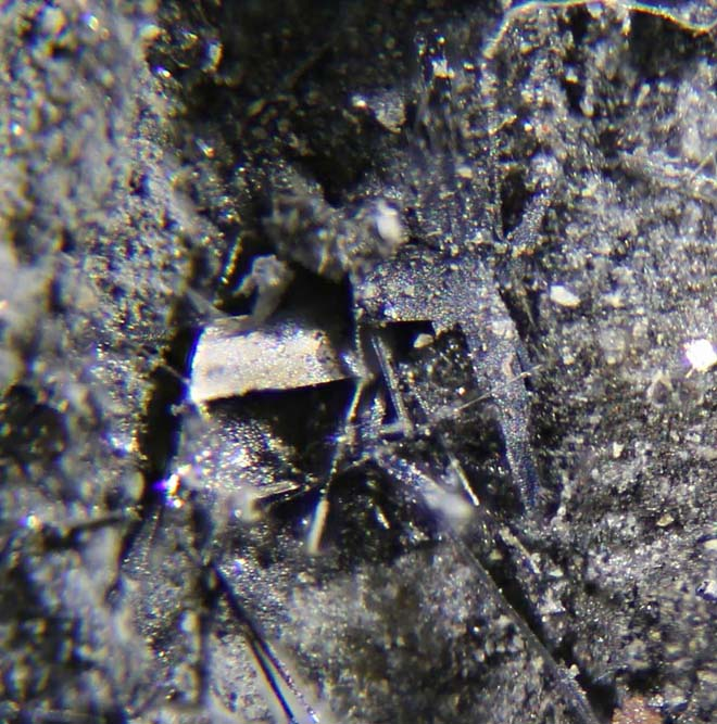 Platy metallic crystals of the very rare sulphosal mineral wittite from the famous locality LaFossa Crater (La Fossa Crater, Vulcano Island, Aeolian Islands, Sicily, Italy) and associated to acicular metallic bismuthinite. Analyzed specimen.